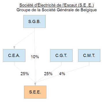 Organization chart from S.E.E. in 1930